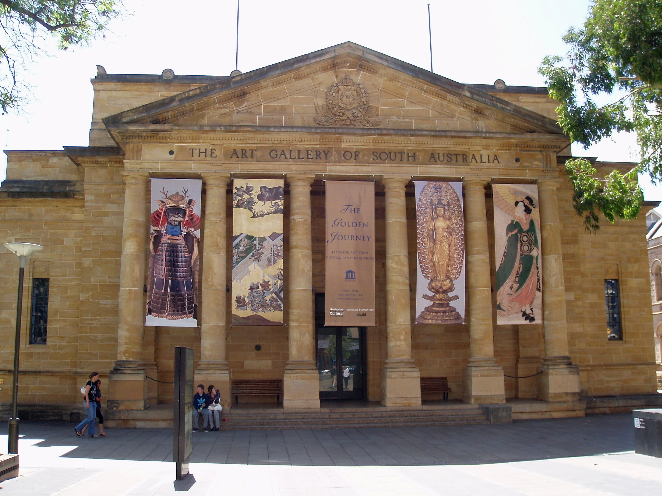 All the Museums, Galleries and the Botanic Gardens are located along North Terrace, Adelaide. Very convenient and easy to visit everything without miles of unnecessary walking!!